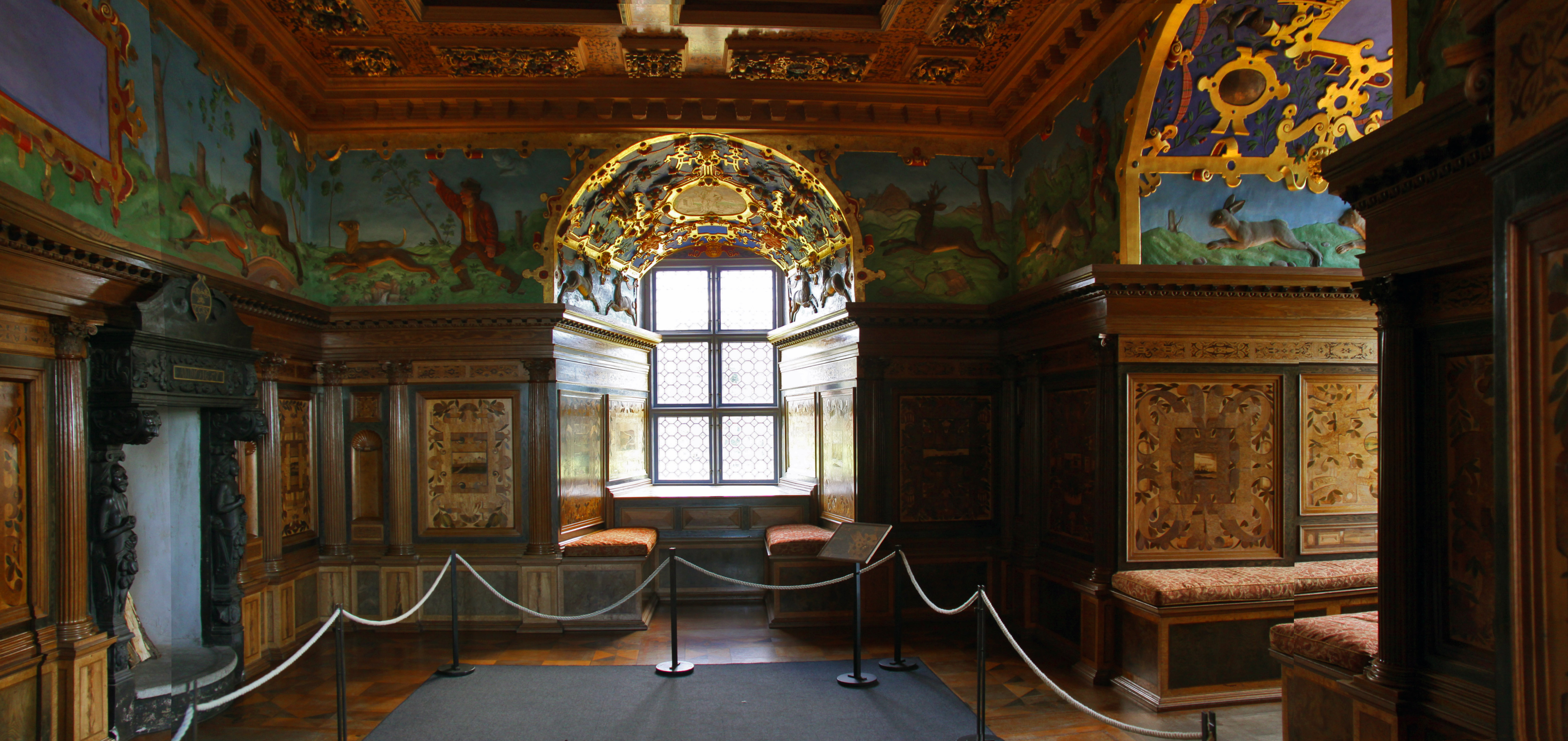 Kalmar, Sweden: the castle, Erik the XIV's Chamber, around 1560.